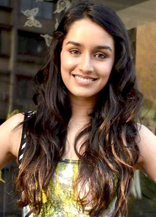 Shraddha Kapoor at Luv Ka The End With( Hritesh jack)Audio release at Marc Cain Store